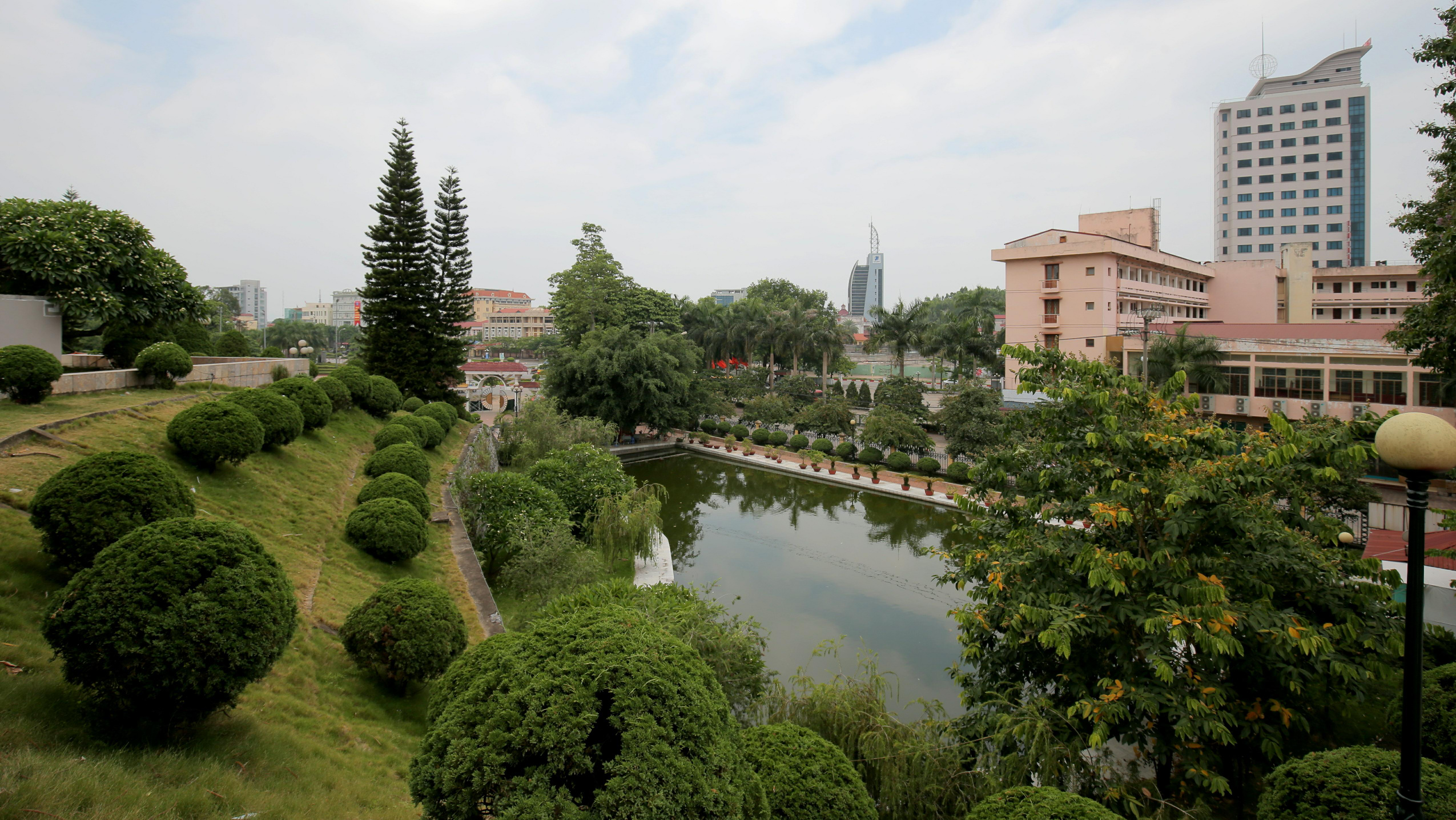 Thái Nguyên city, Thái Nguyên province, Vietnam.